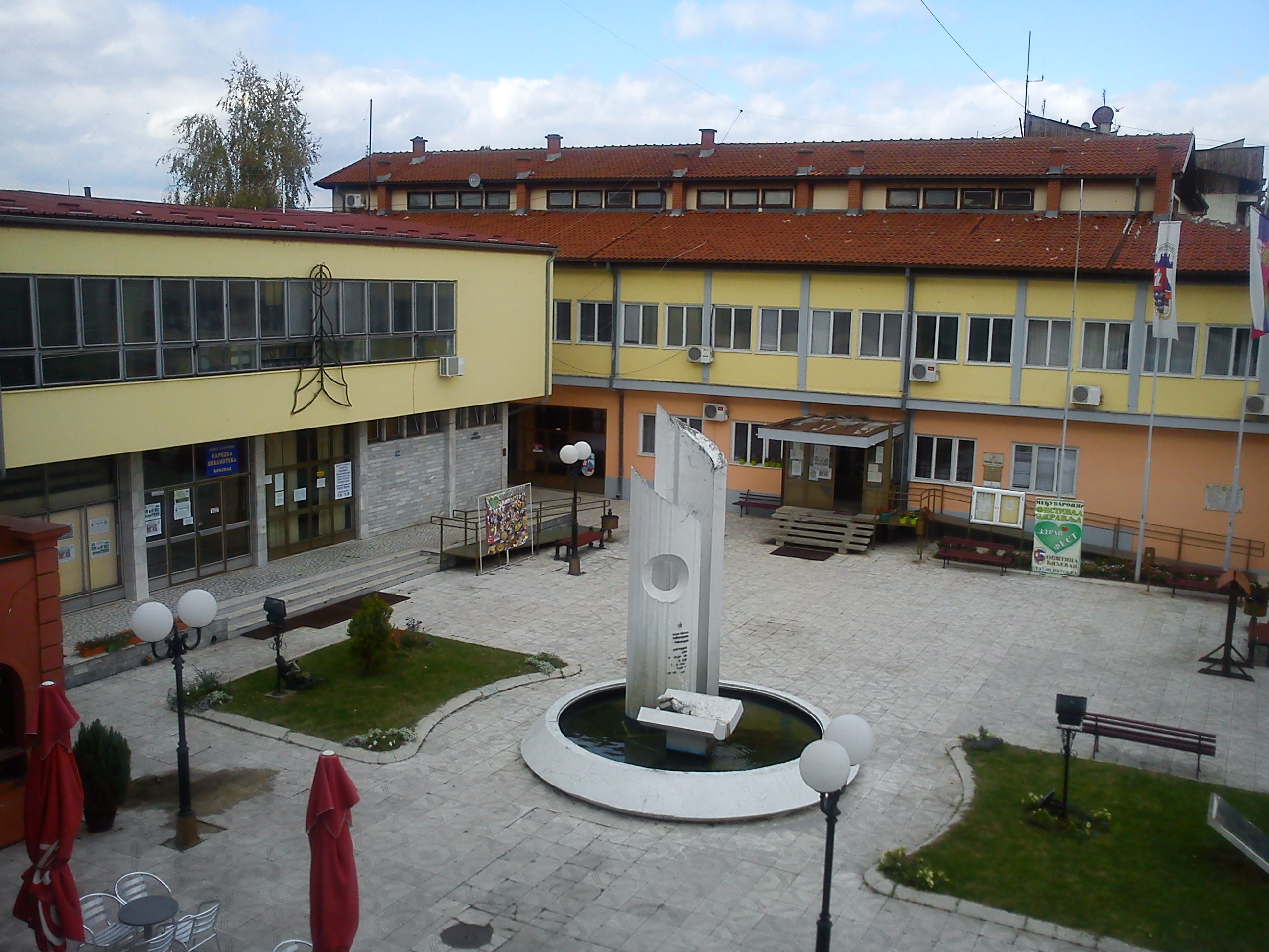 Scwer of Cicevac town